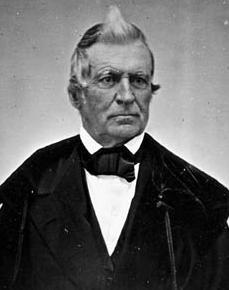 Daguerréotype of Louis-Joseph Papineau. Cropped.